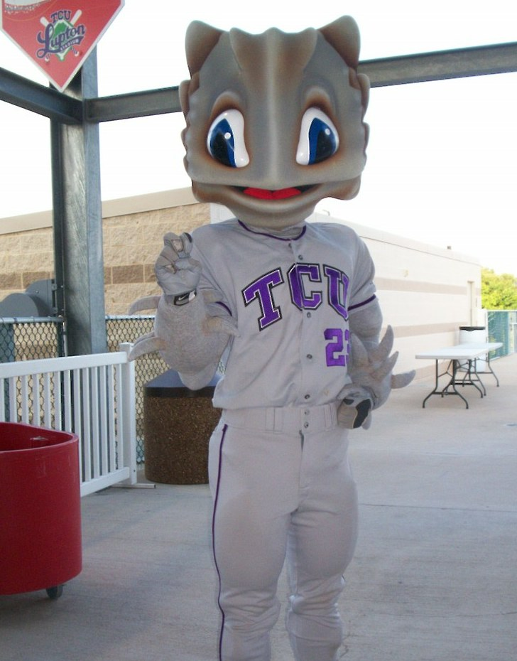 Superfrog the mascot of Texas Christian University (TCU) Athletics.